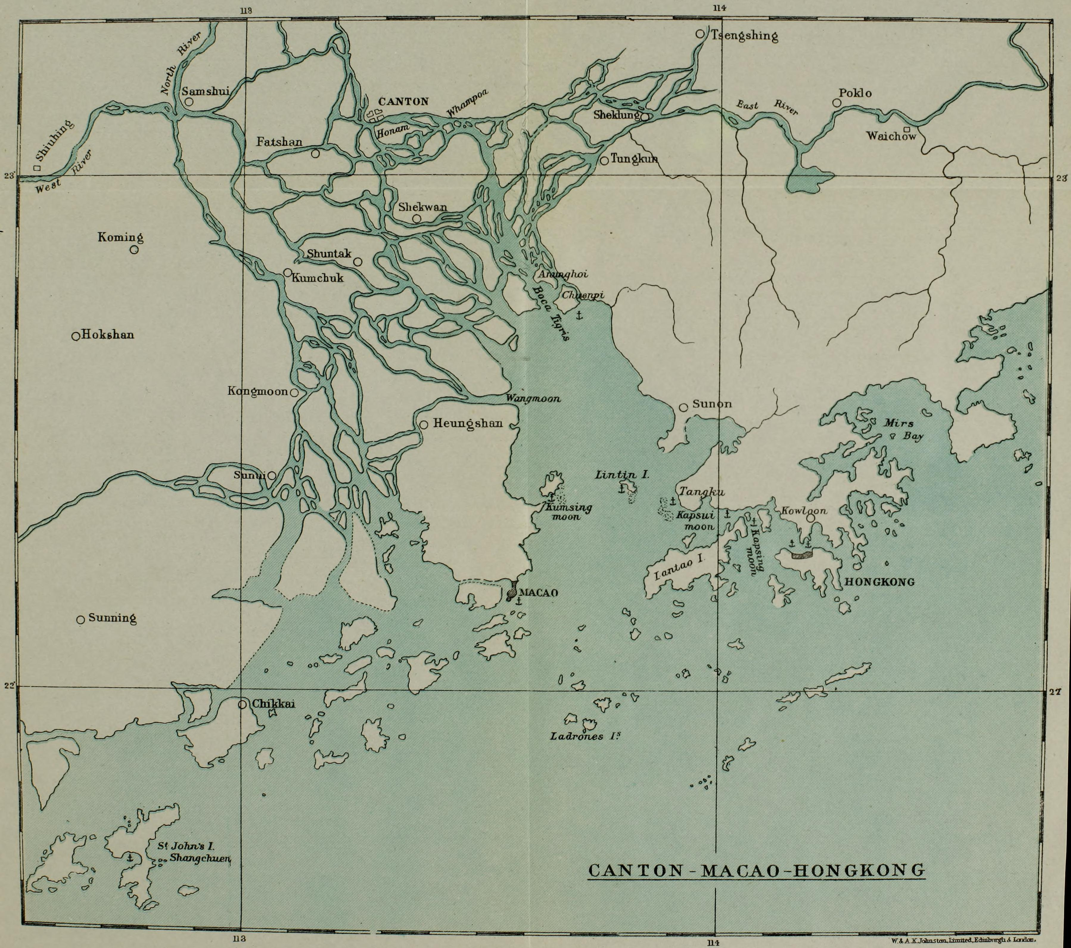 The Canton estuary